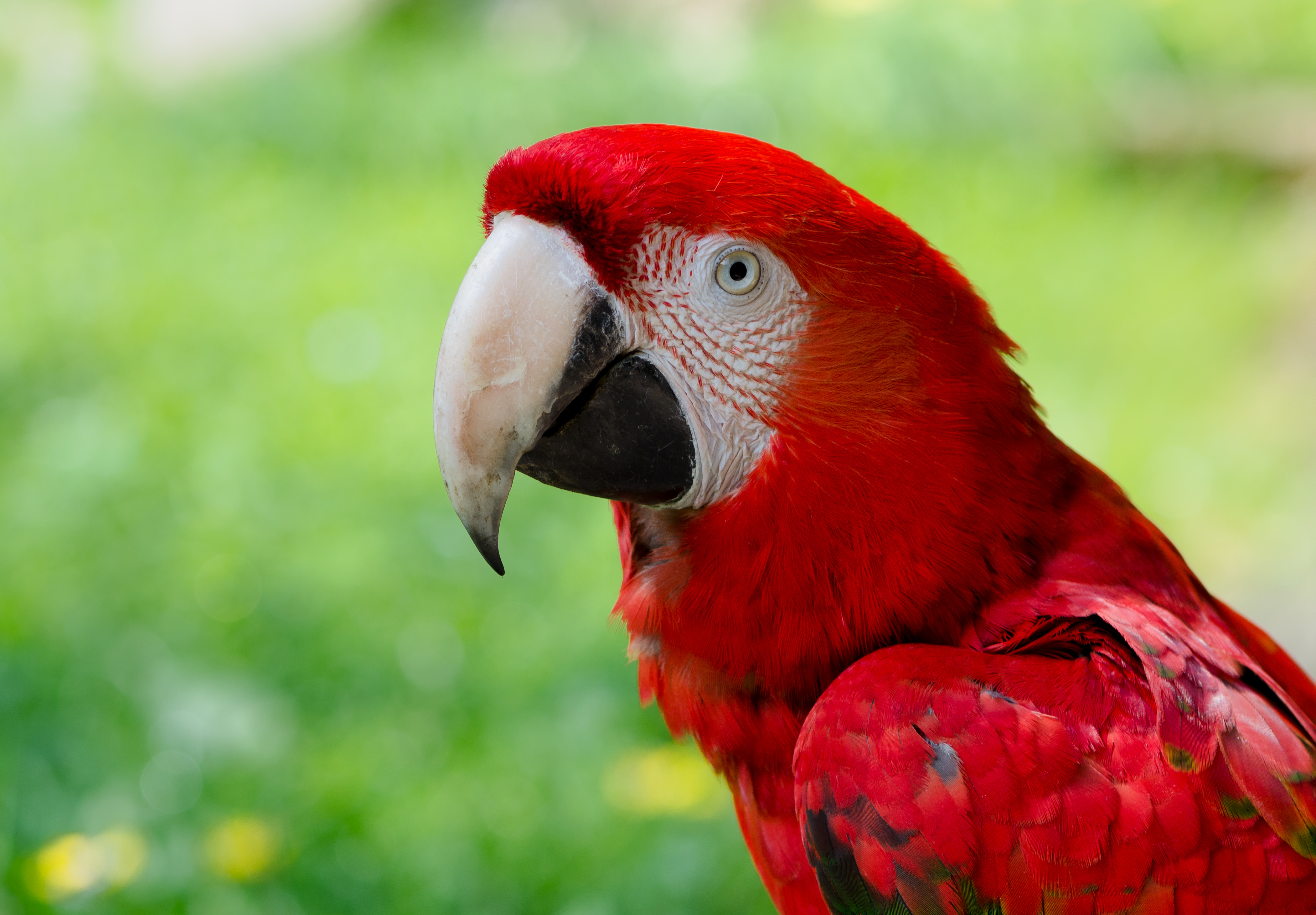 Hybrid of Green-winged Macaw and Scarlet Macaw, photographed in the zoo of Münster, Germany.